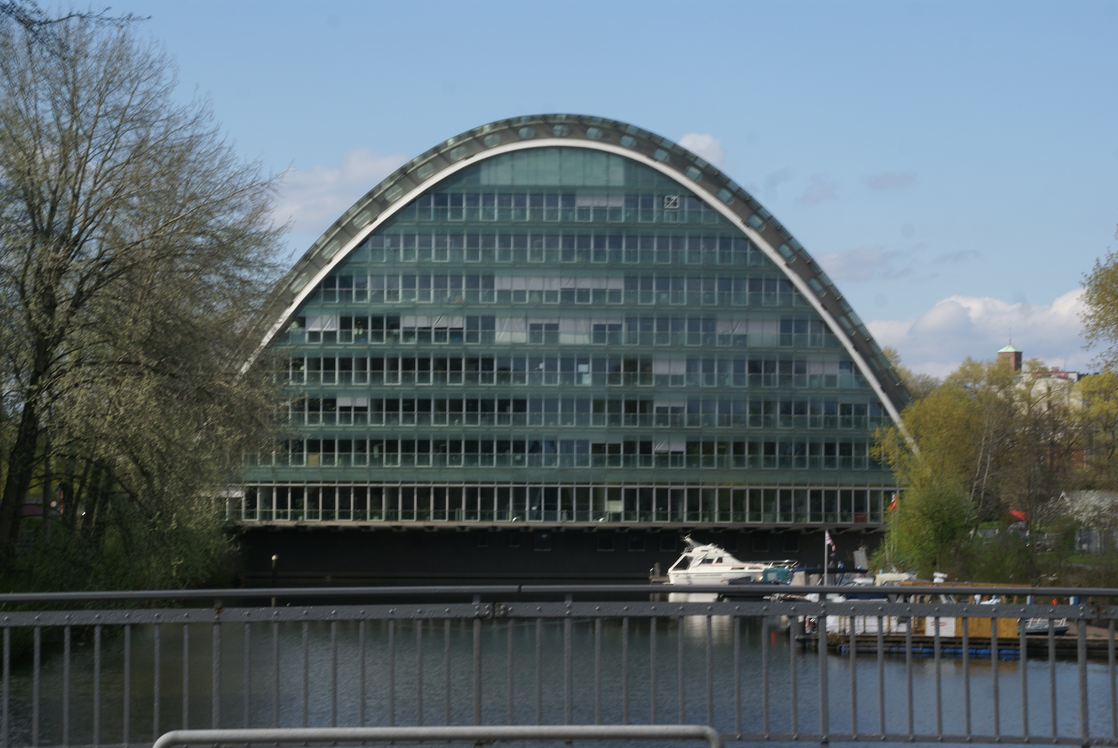 Hamburg (Hammerbrook), Germany: The Berliner Bogen at the end of the Hochwasserbassin